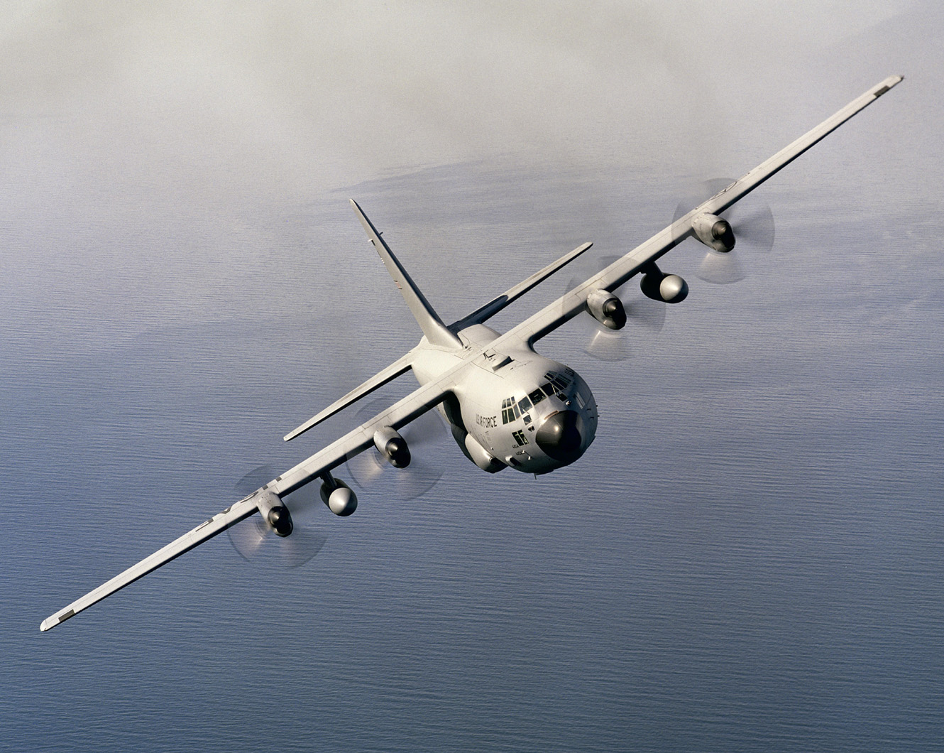 An Air Force Reserve Command C-130 from the 440th Airlift Wing, General Mitchell International Airport-Air Reserve Station, Milw., banks over Lake Michigan. (U.S. Air Force photo by Joe Oliva)